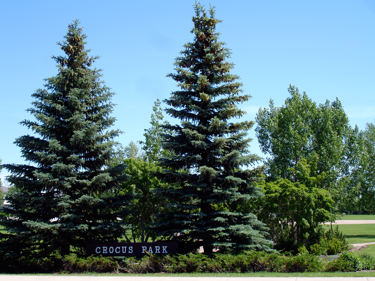 Crocus Park, a public park in the Lakeridge subdivision of Saskatoon, Saskatchewan, Canada.